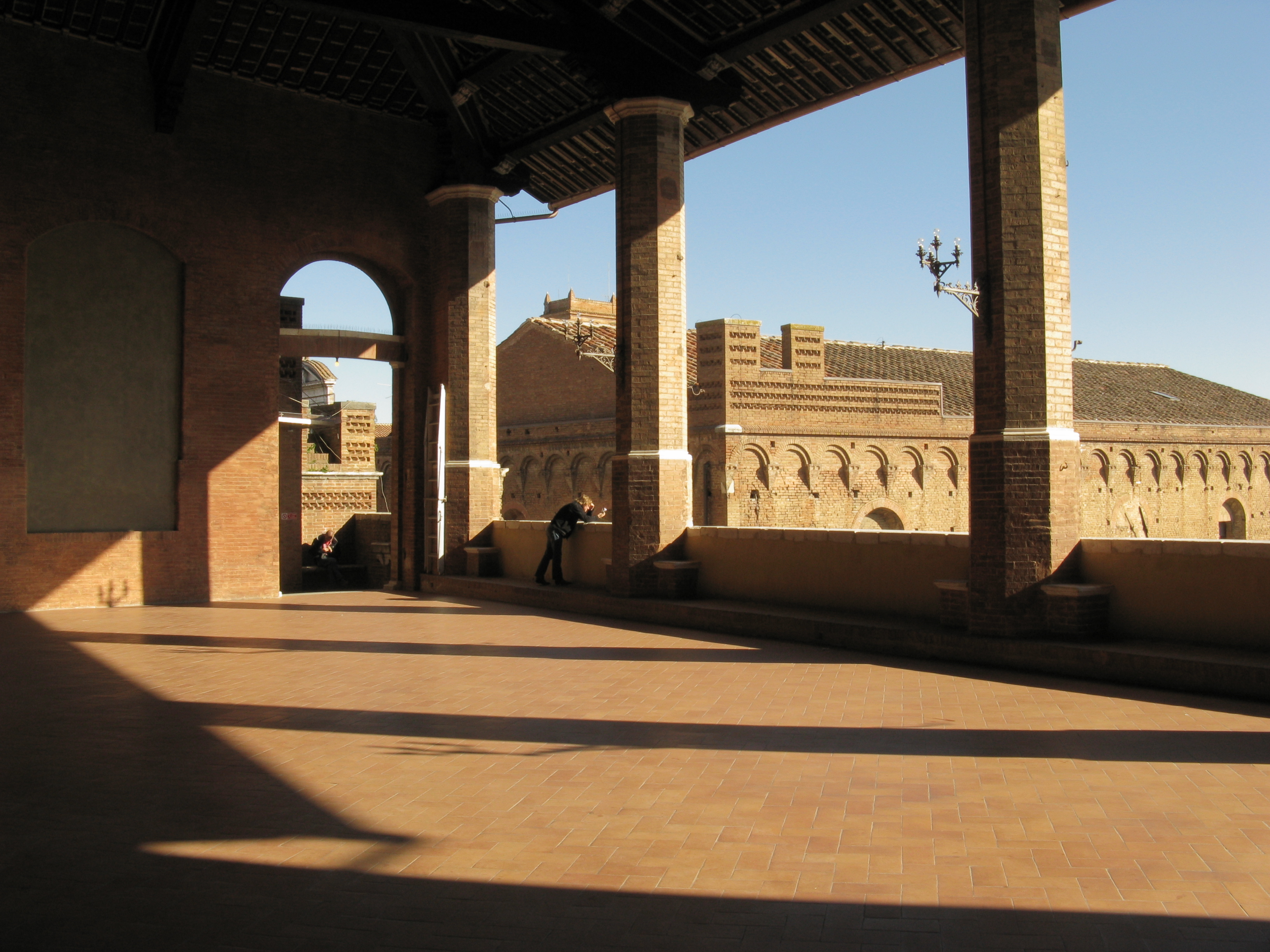 Loggia at the back of the Palazzo Pubblico, Siena, Italy.